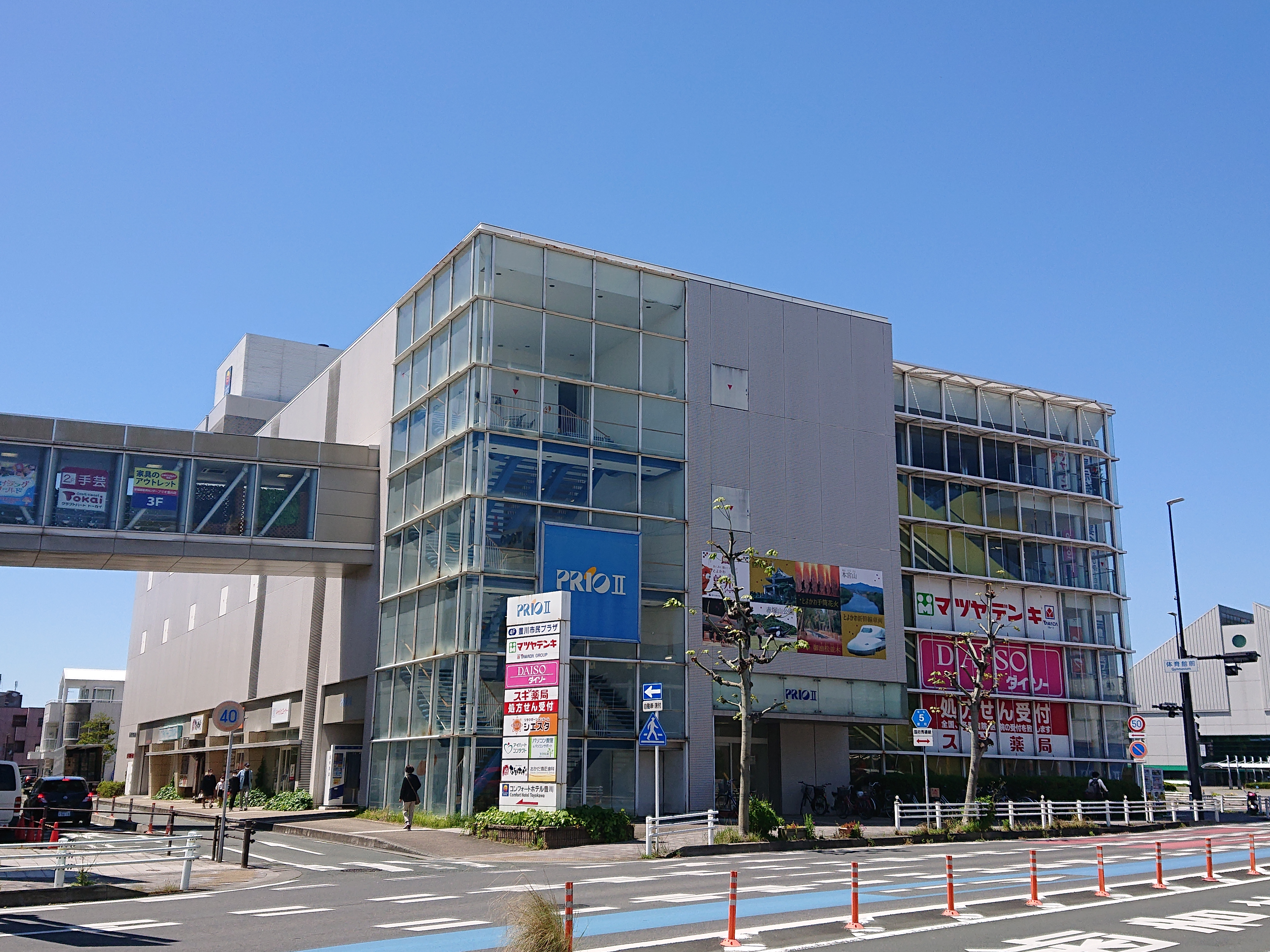 Shopping center "PRIO", located at Suwa, Toyokawa, Aichi, Japan